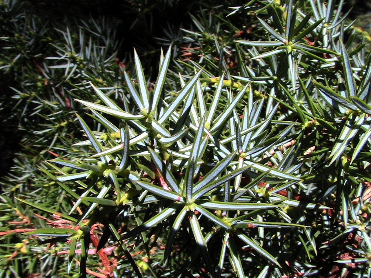 Juniperus communis. In la Bòfia, Odèn (Solsonès - Catalunya). To 1.750 m. altitude